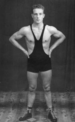 Wrestler Lauri Koskela (1907-1944), Olympic gold medalist in 1936 Summer Olympics.